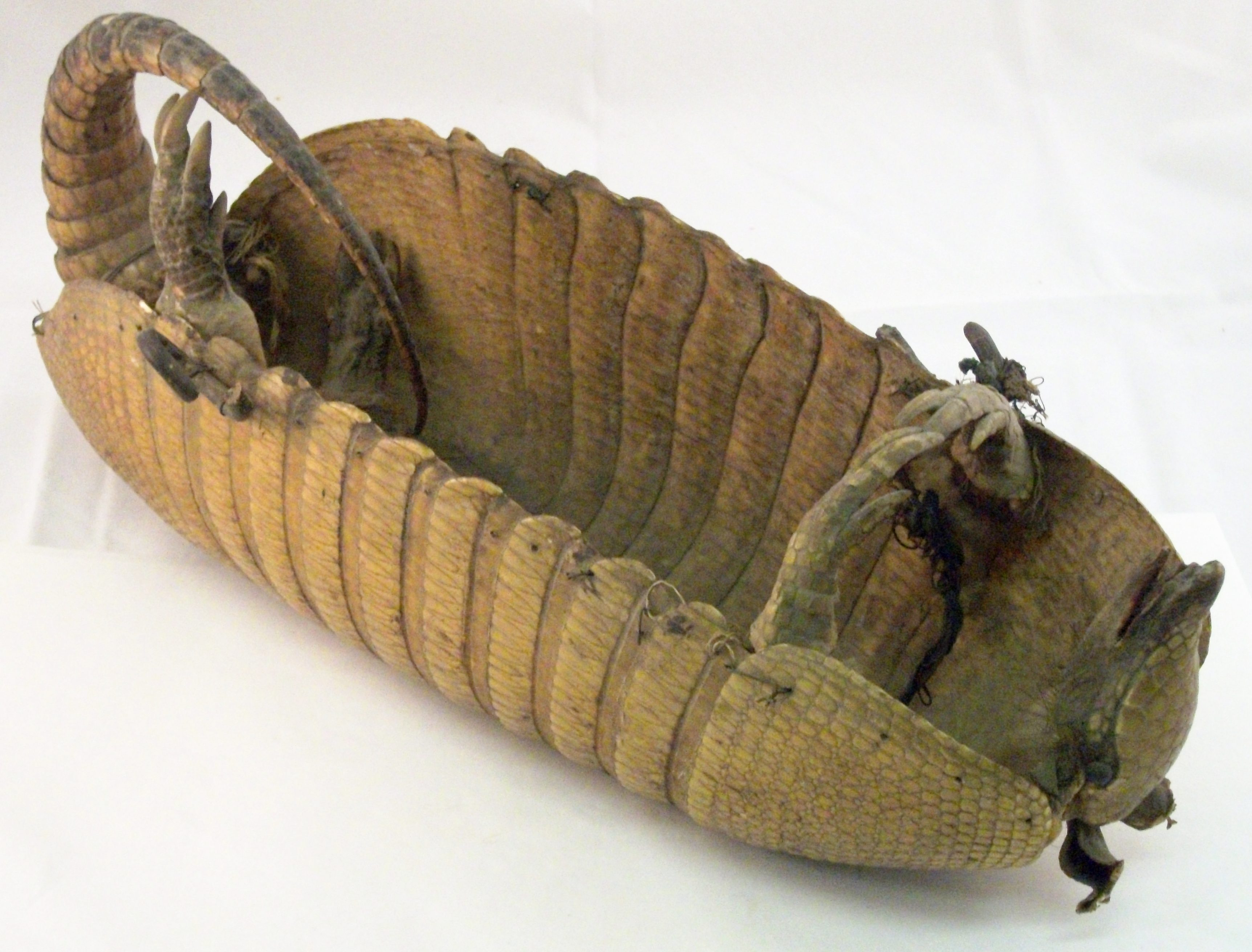 A bag made from an armadillo. In the stores of Bedford Museum. Even as a bag the creature has not fared terribly well and its left back leg has become detached.